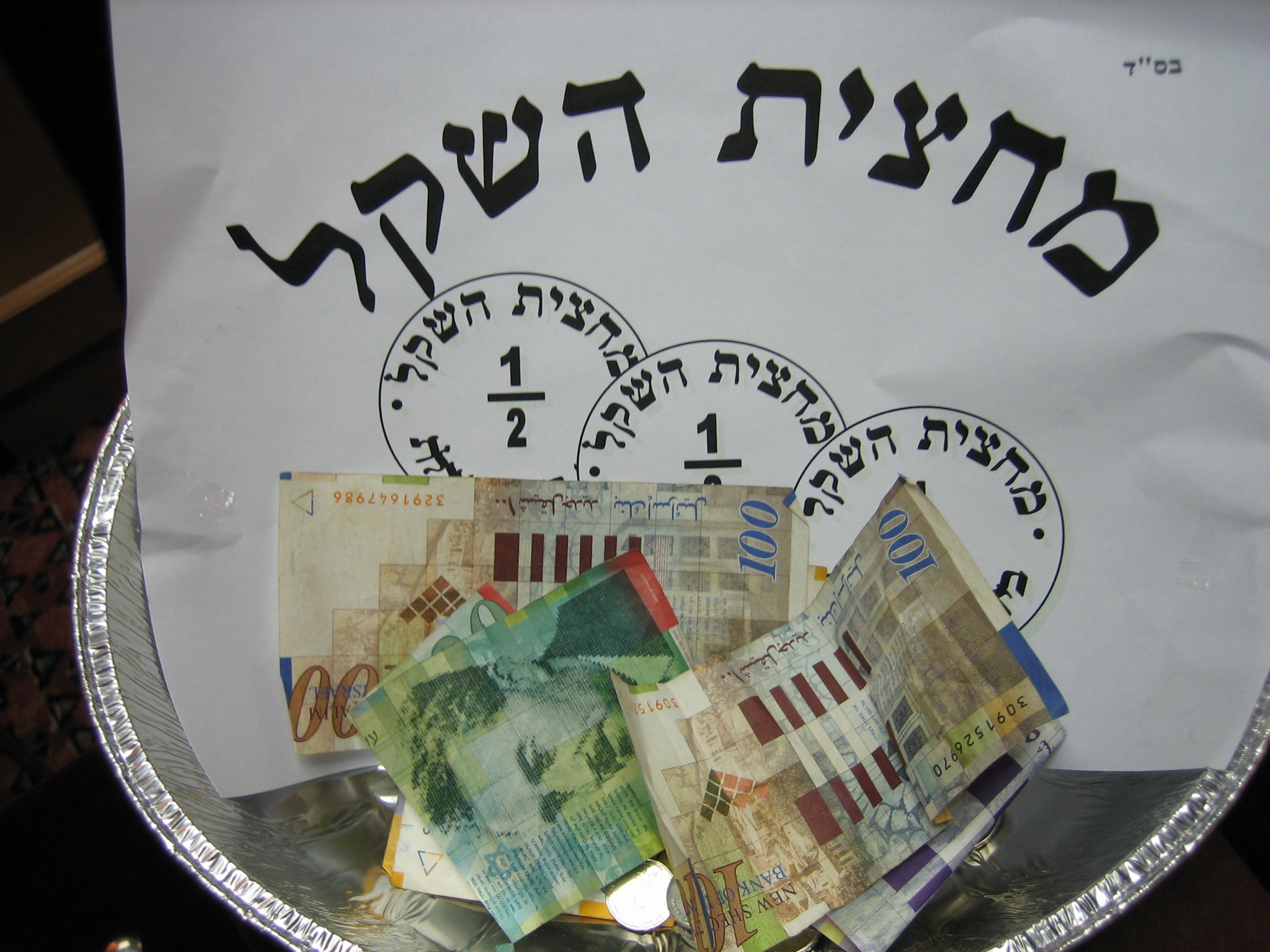 Religion in Israel